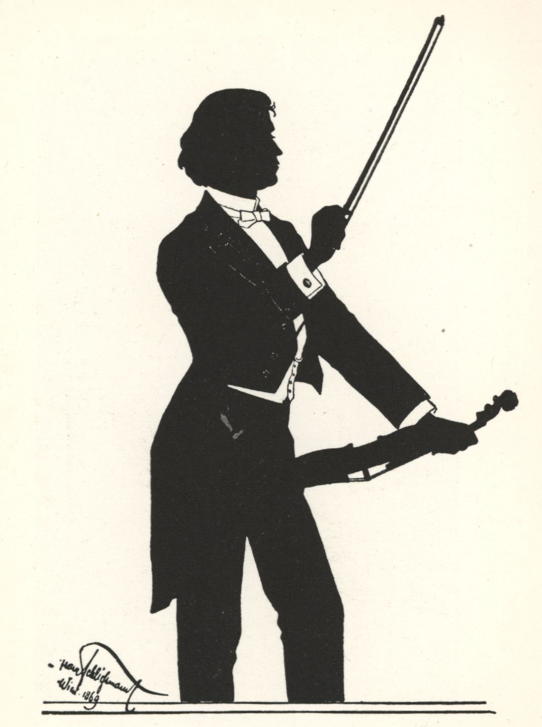 Josef Strauss (1827–1870), Austrian composer and conductor; silhouette by Hans Schließmann